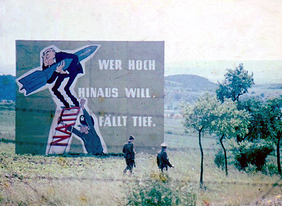 East German border guards on the inner German border near Mackenrode, Thuringia. The caricature reads -loosely translated- “The bigger they come, the harder they fall.”